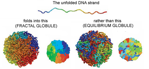 The fractal globule 3-D genome structure predicted by Lieberman Aiden et al. (2009) based on genome-wide contact probabilities reported via the "Hi-C" method.